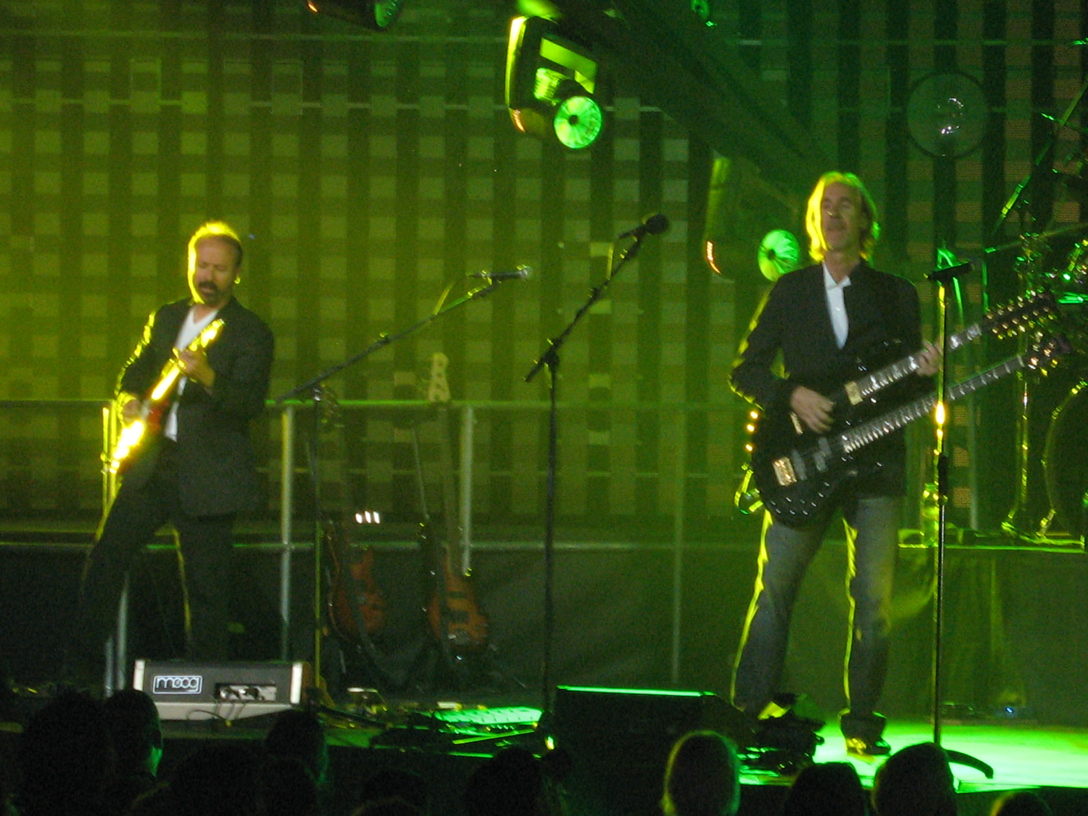 Daryl Stuermer and Mike Rutherford performing "Duke's Travels" with Genesis in concert at the Verizon Center, Washington, D.C., USA.